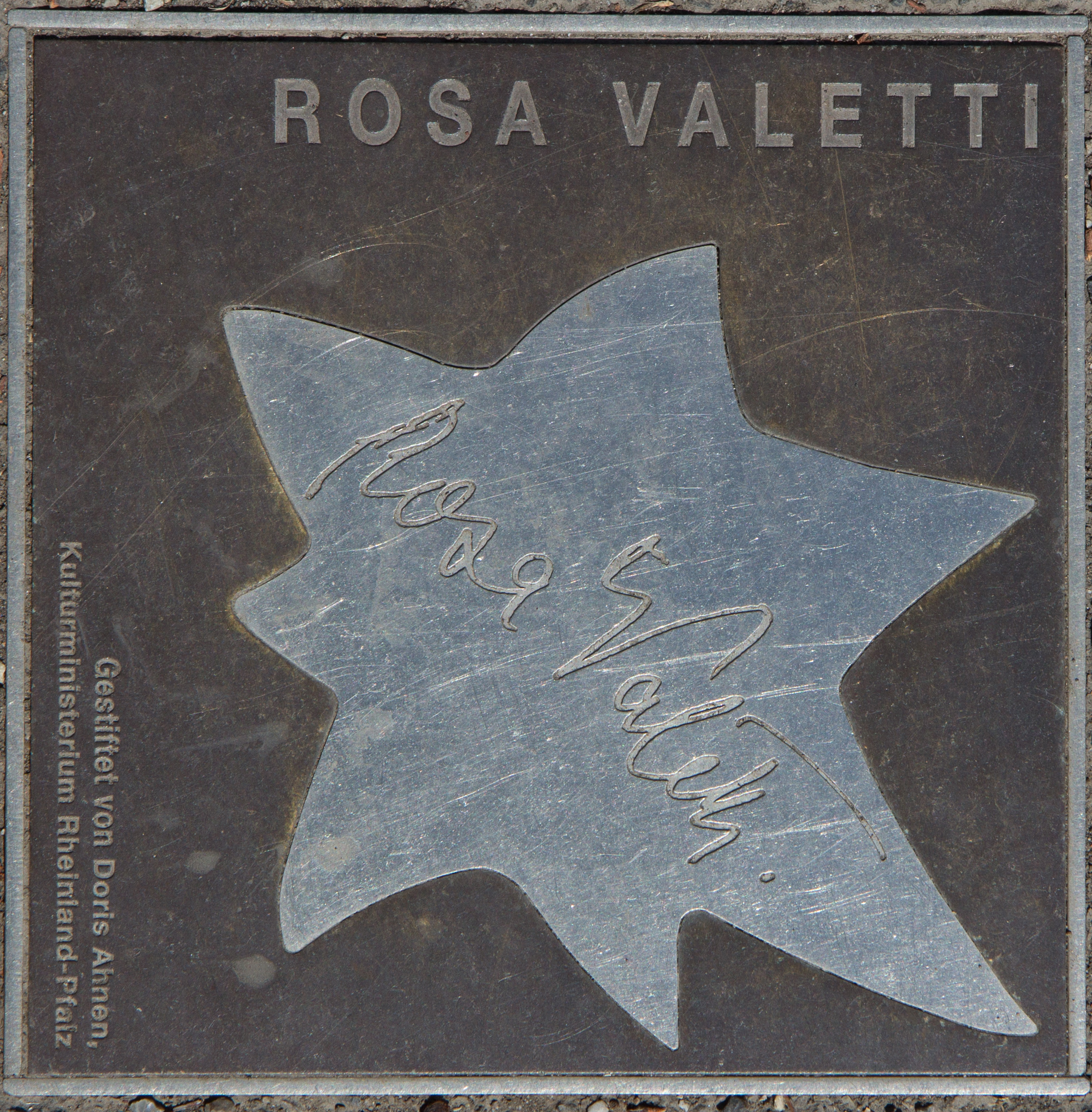 Walk of Fame of Cabaret: Rosa Valetti